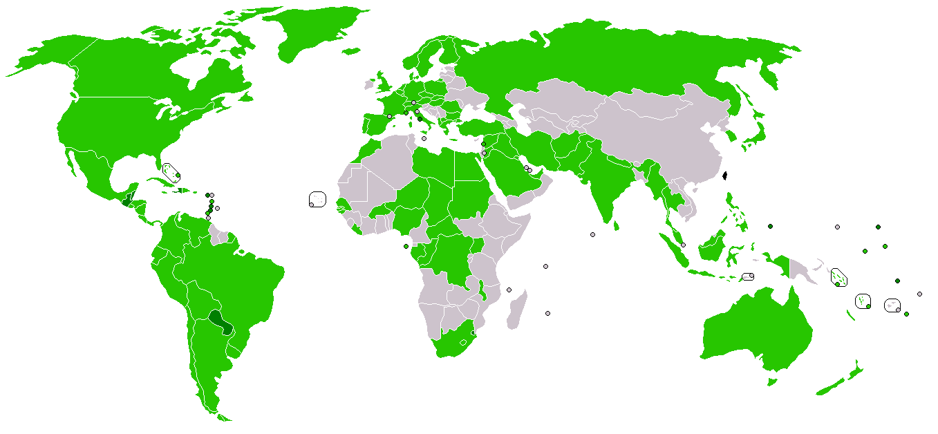 Republic of China (Taiwan) Countries that have diplomatic relations with the ROC Countries that formerly had diplomatic relations with the ROC Countries that have never had diplomatic relations with the ROC